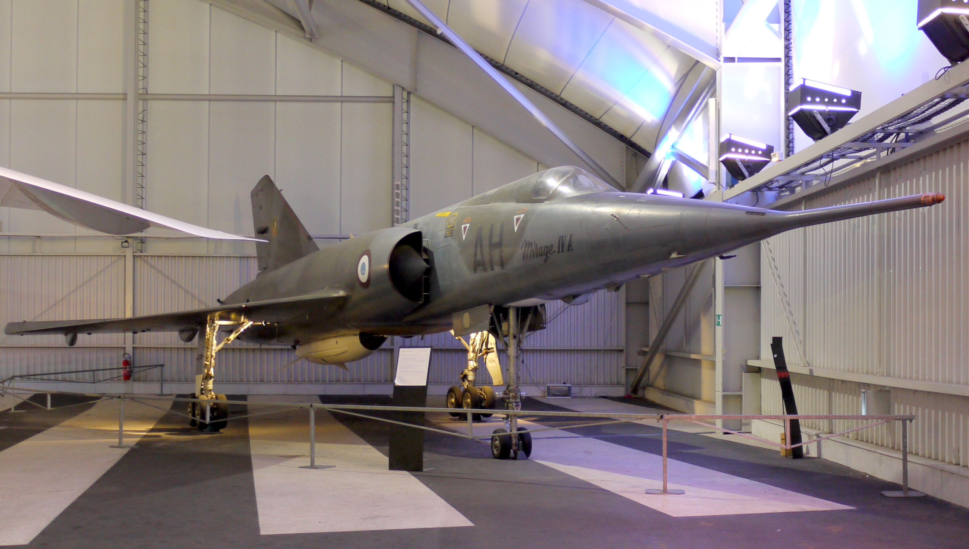 Bomber and reconnaissance aircraft Mirage IV A (1961), Museum of Air and Space Paris, Le Bourget (France)